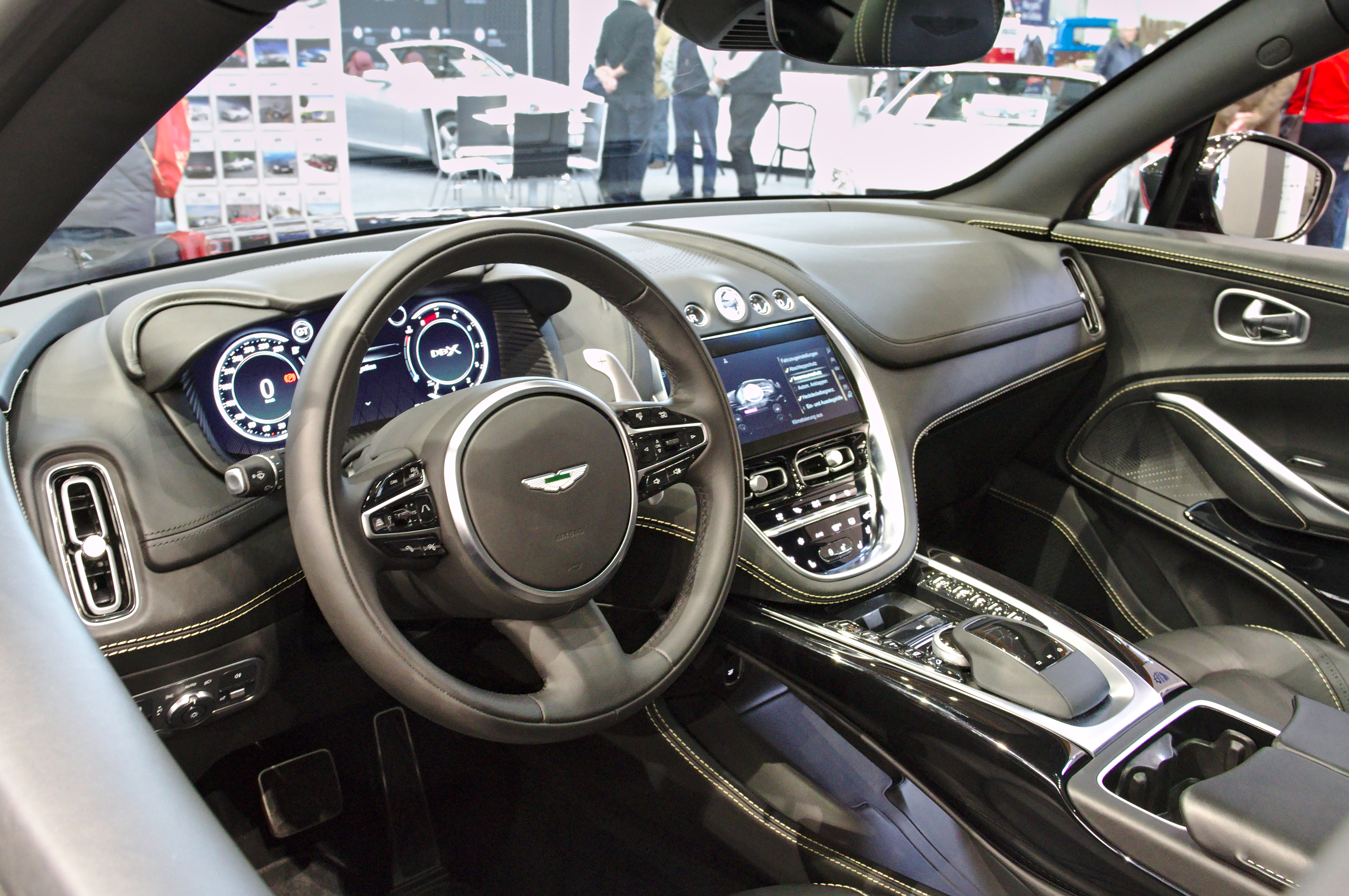 Aston_Martin_DBX at Retro Classics 2020